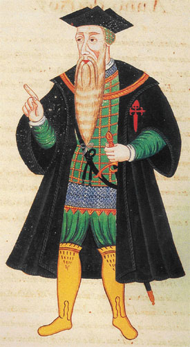 Portrait of Afonso de Albuquerque, governor of Portuguese Indies (1509-1515), from Pedro Barretto de Resende's Livro de Estado da India Oriental, 1646 (Sloane 197 MS, British Library)